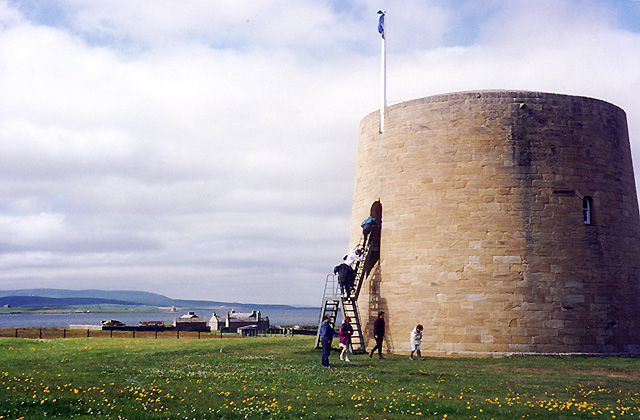 Martello Tower at Hackness on South Walls, Orkney Islands This is one of two towers built in 1814 to improve the defence of Longhope Sound. The other can just be seen on the other side of the sound